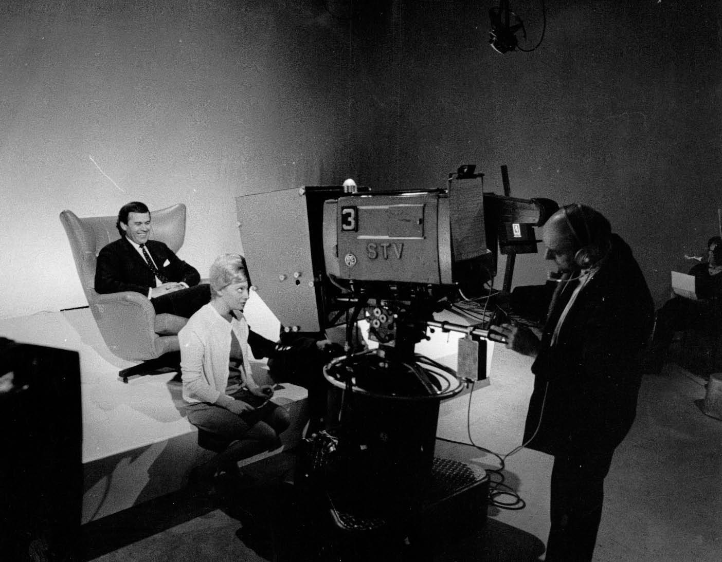 Behing the Scens on Cartoon Cavalcade